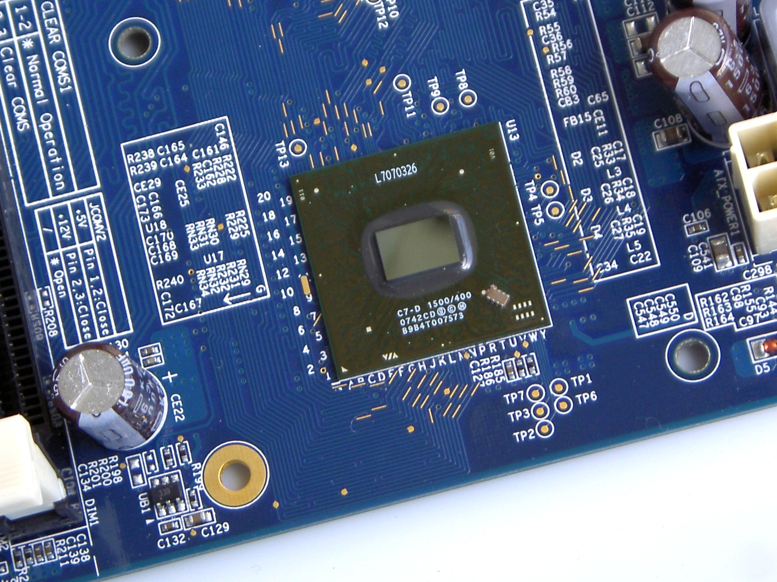 VIA C7-D Processer 1.5GHz NanoBGA2 Package